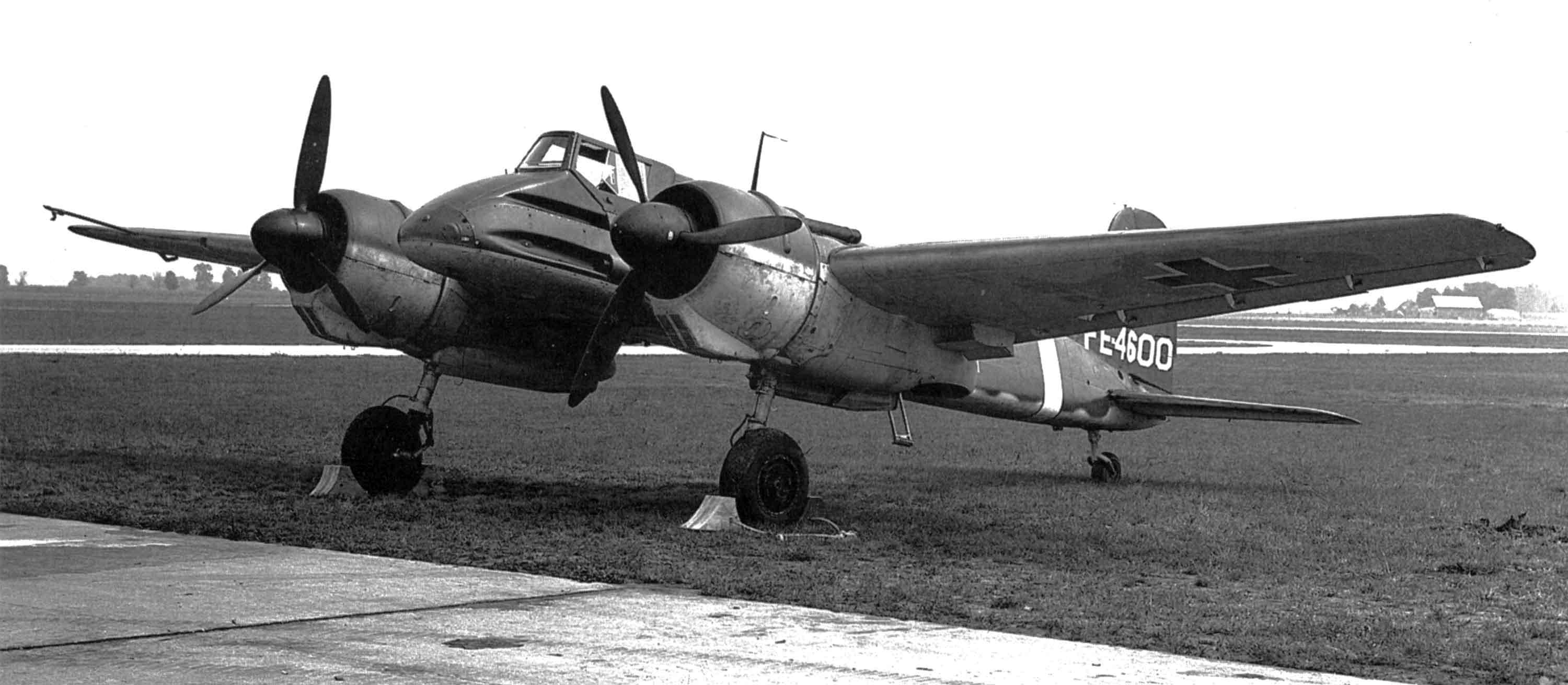 A captured German Henschel Hs 129B wearing USAAF FE (Foreign Evaluation, FE-4600) markings at Freeman Field, Indiana (USA).